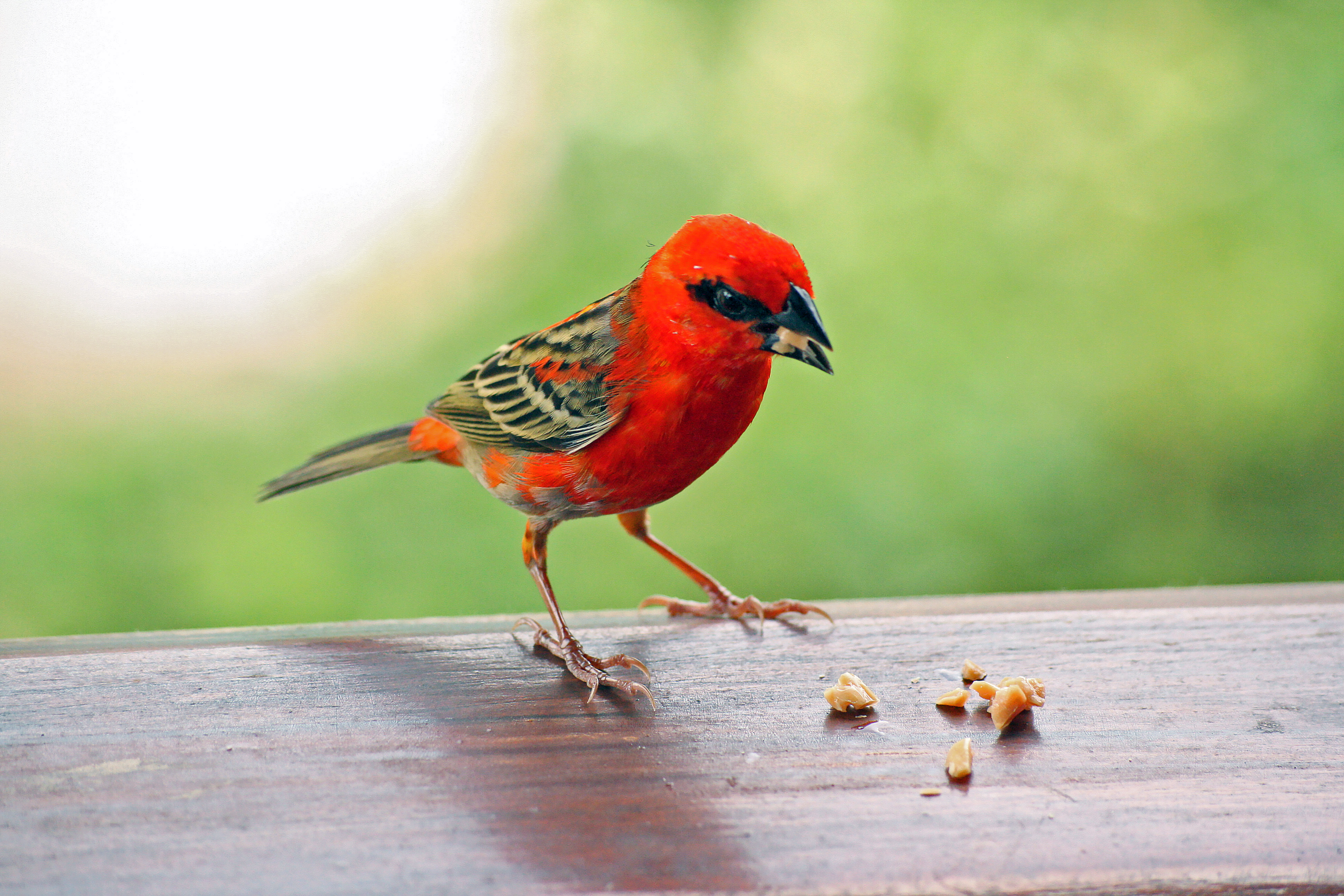 Foudia madagascariensis ("Madagascar Fody")) on Praslin island on the Seychelles